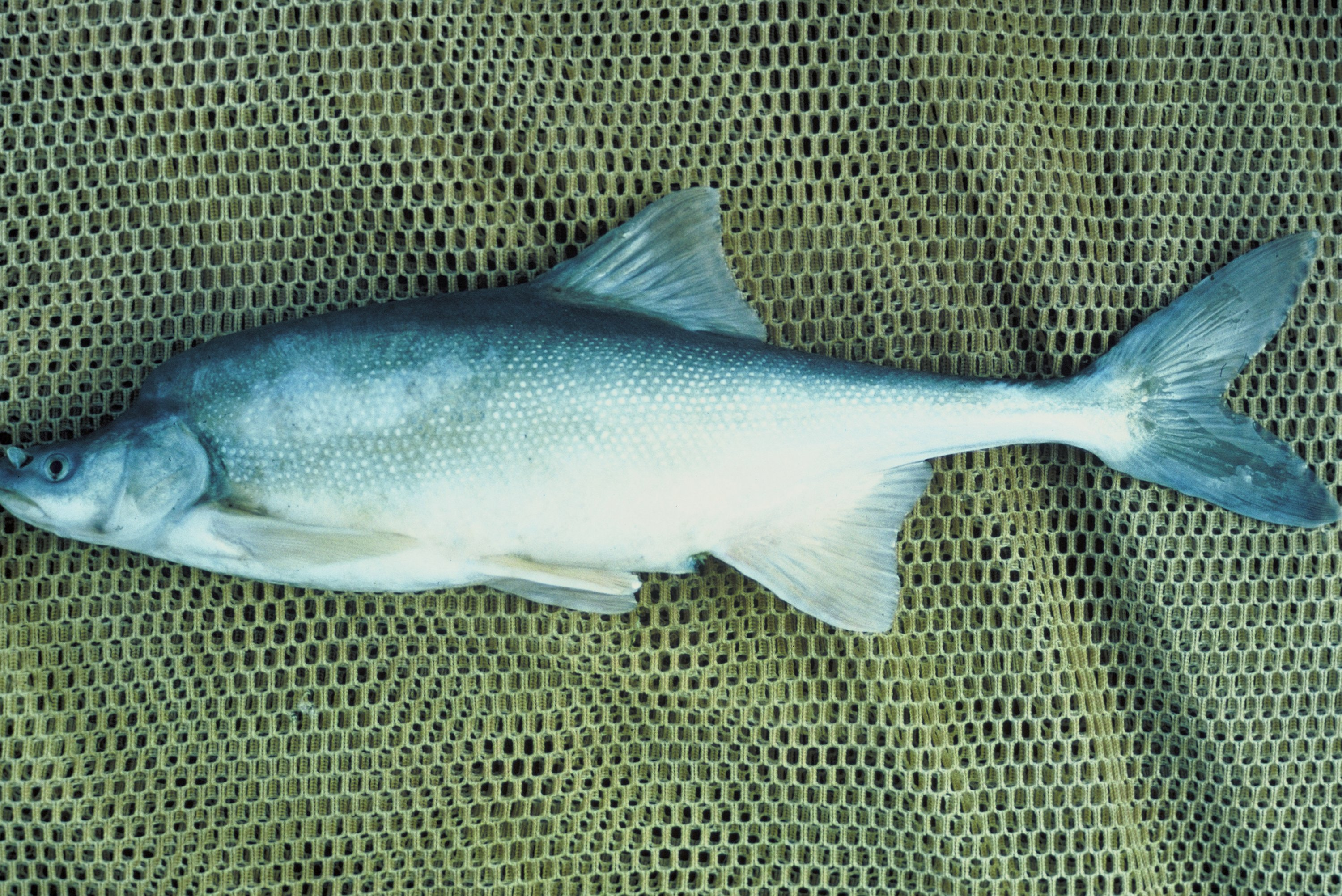 Image of a Humpback Chub taken by the United States Fish and Wildlife Service